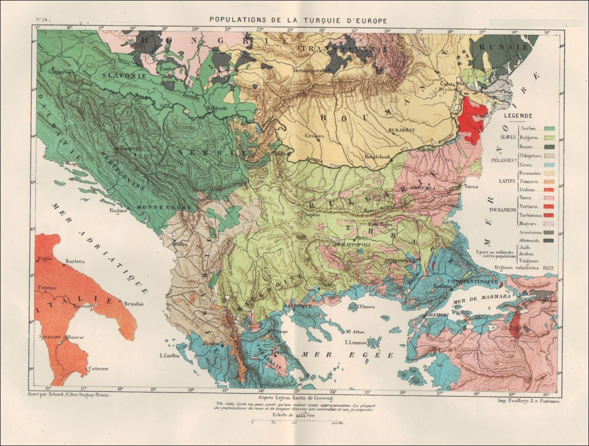 Etnographical map of Balkans